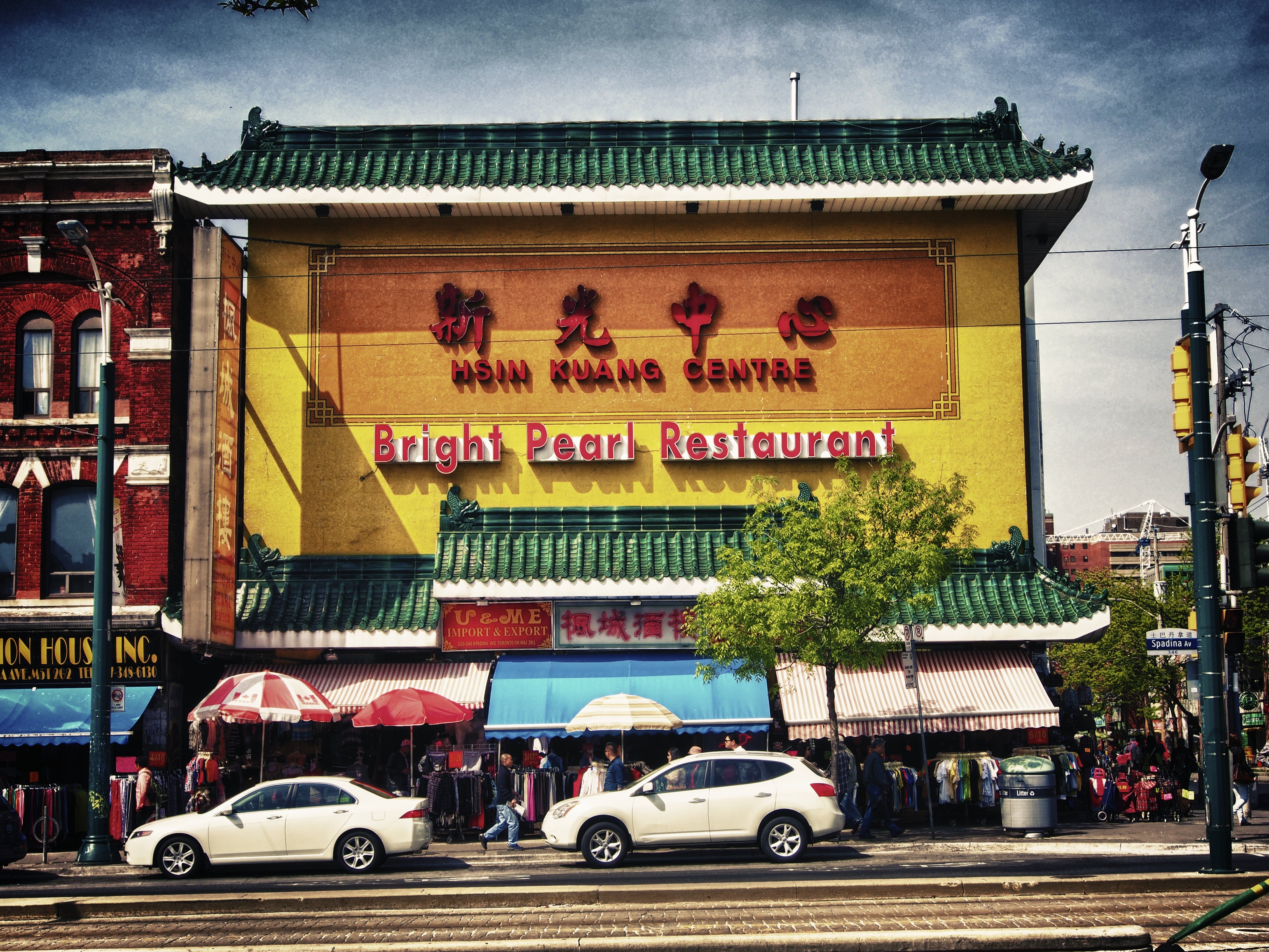 Bright Pearl Restaurant Chinatown Toronto, Canada